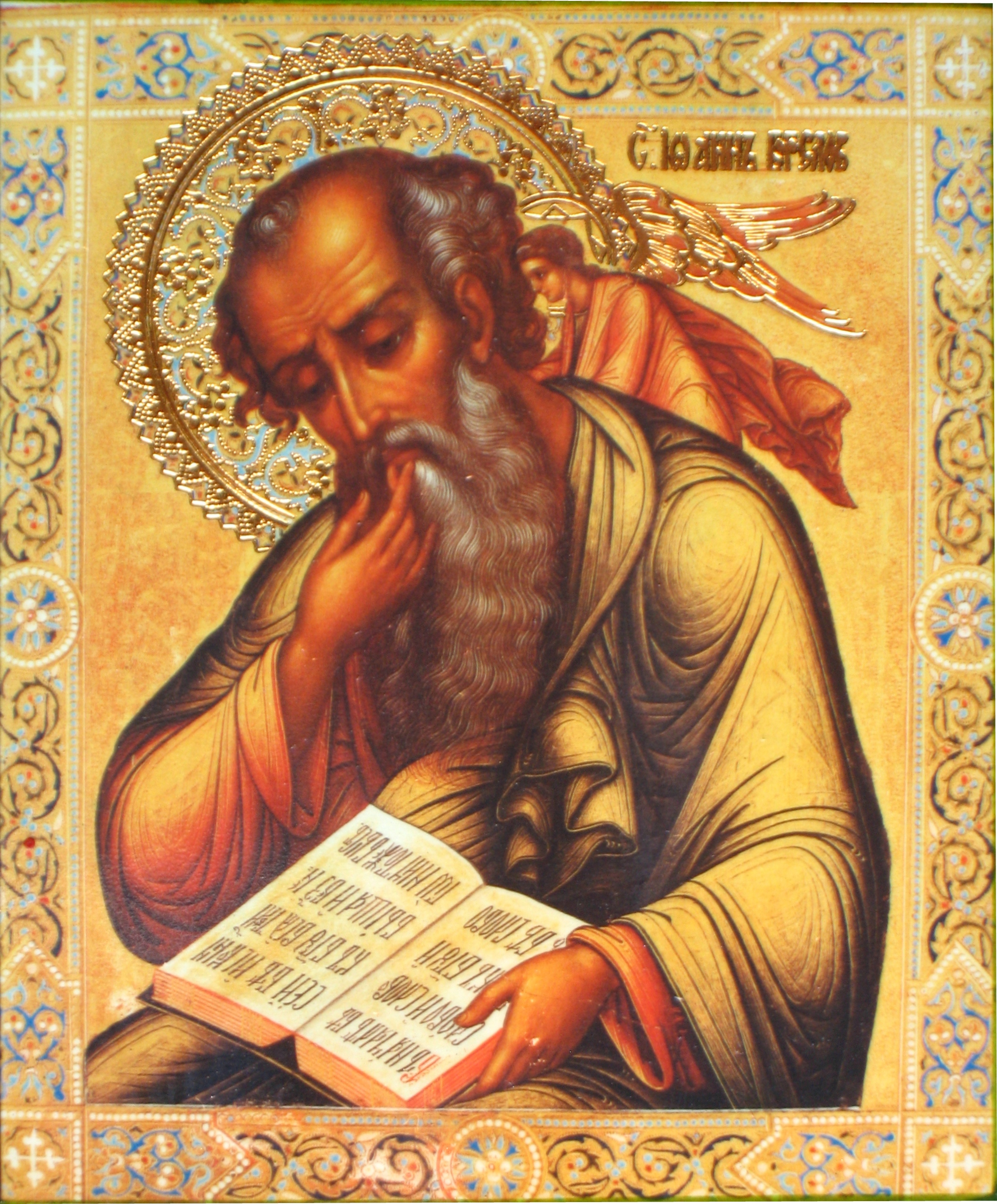 Saint John the Evangelist. Russian Orthodox icon.